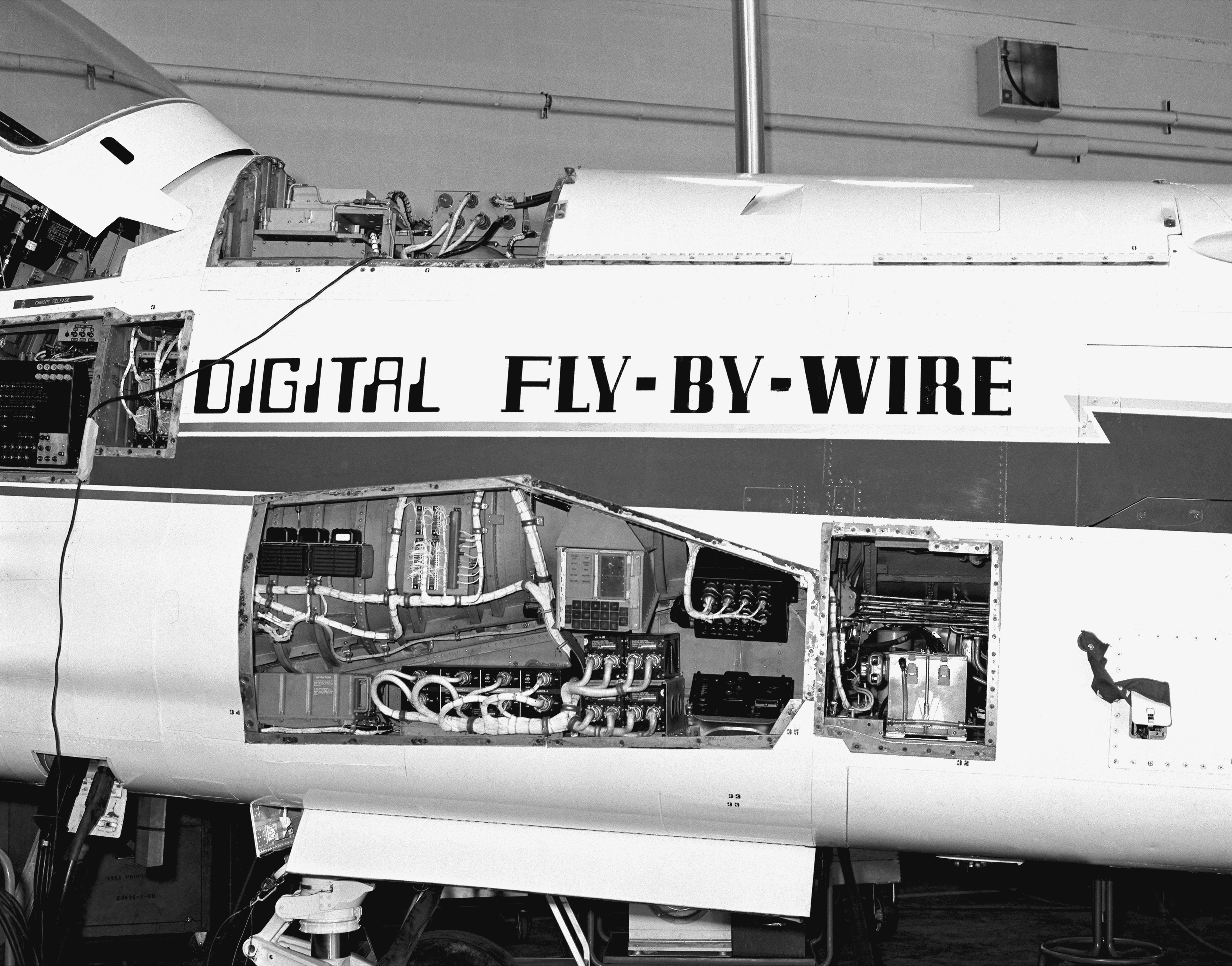 The Apollo hardware jammed into the F-8C. The computer is partially visible in the avionics bay at the top of the fuselage behind the cockpit. Note the display and keyboard unit in the gun bay. To carry the computers and other equipment, the F-8 DFBW team removed the aircraft's guns and ammunition boxes.